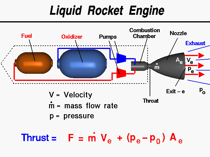 NASA photo of a liquid rocket